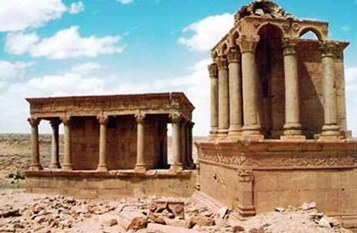 Remains of the Ancient Libyan Roman City of Girza, Libya.